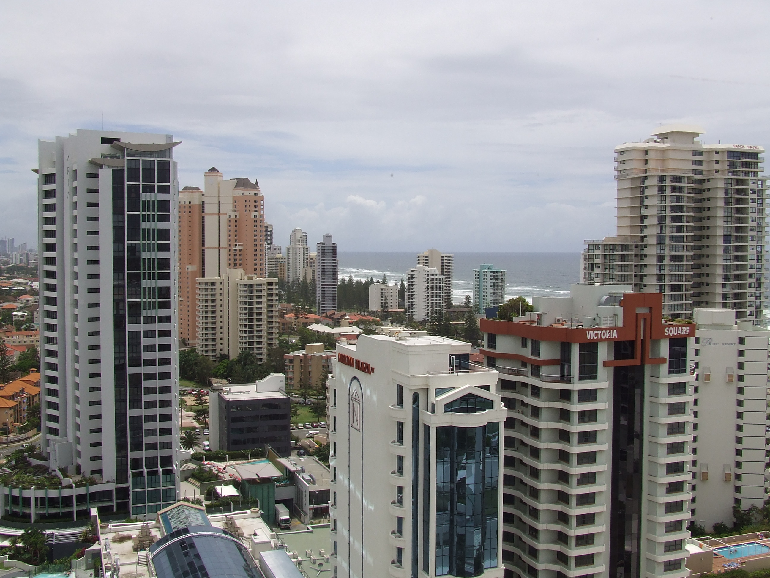 View to the north of Sofitel Broadbeach on the Gold Coast in Australia